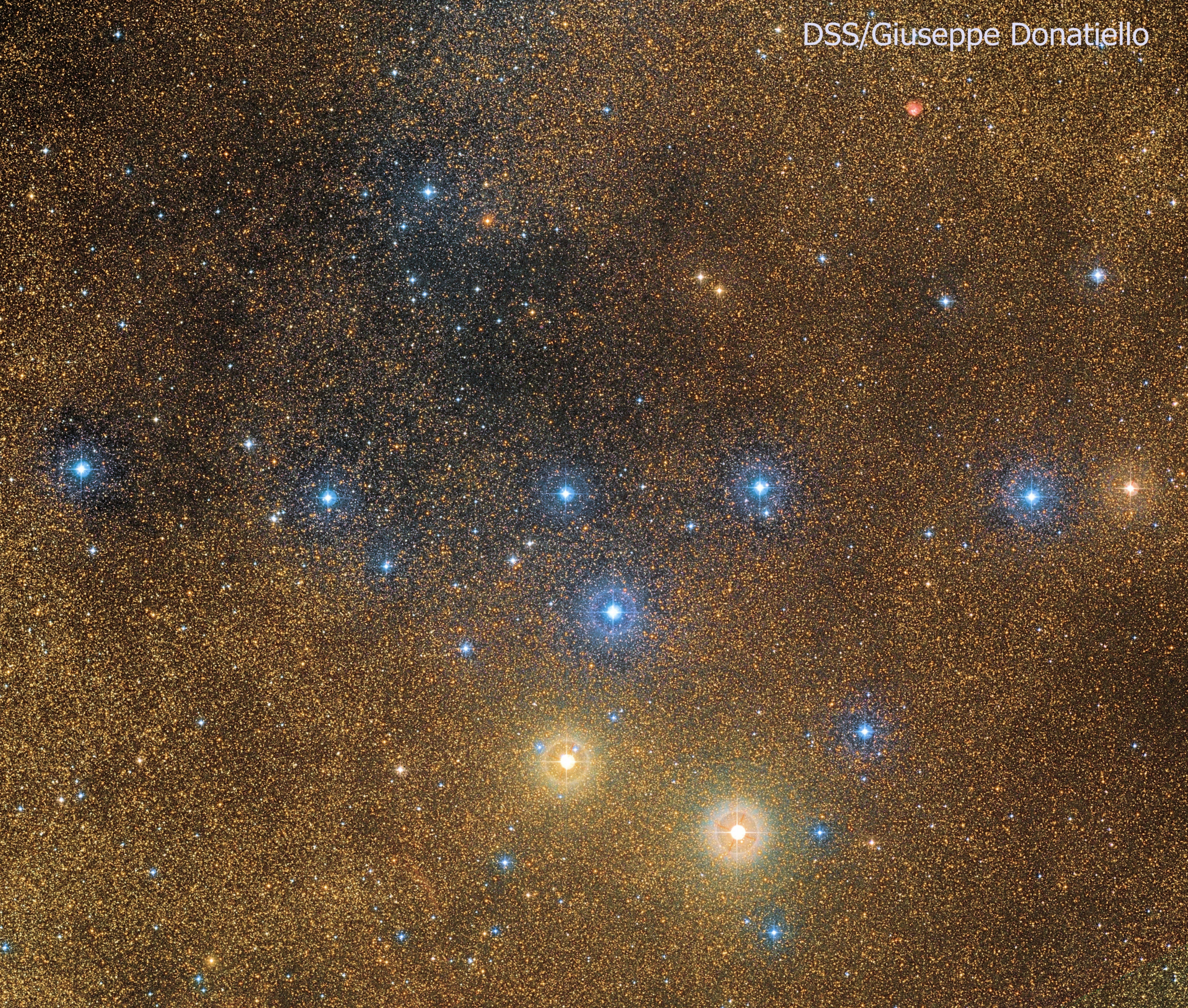 Credit: POSS II / Giuseppe Donatiello RA 19h 25m 24s Dec +20°11′00″ Collinder 399 (Cr 399) is a random grouping of stars located in Vulpecula. CR399 is known as Al Sufi's Cluster or Brocchi's Cluster. The brighter members of this star cluster form an asterism also known as the Coathanger. It was first described by the Persian astronomer Al Sufi in his Book of Fixed Stars in 964.